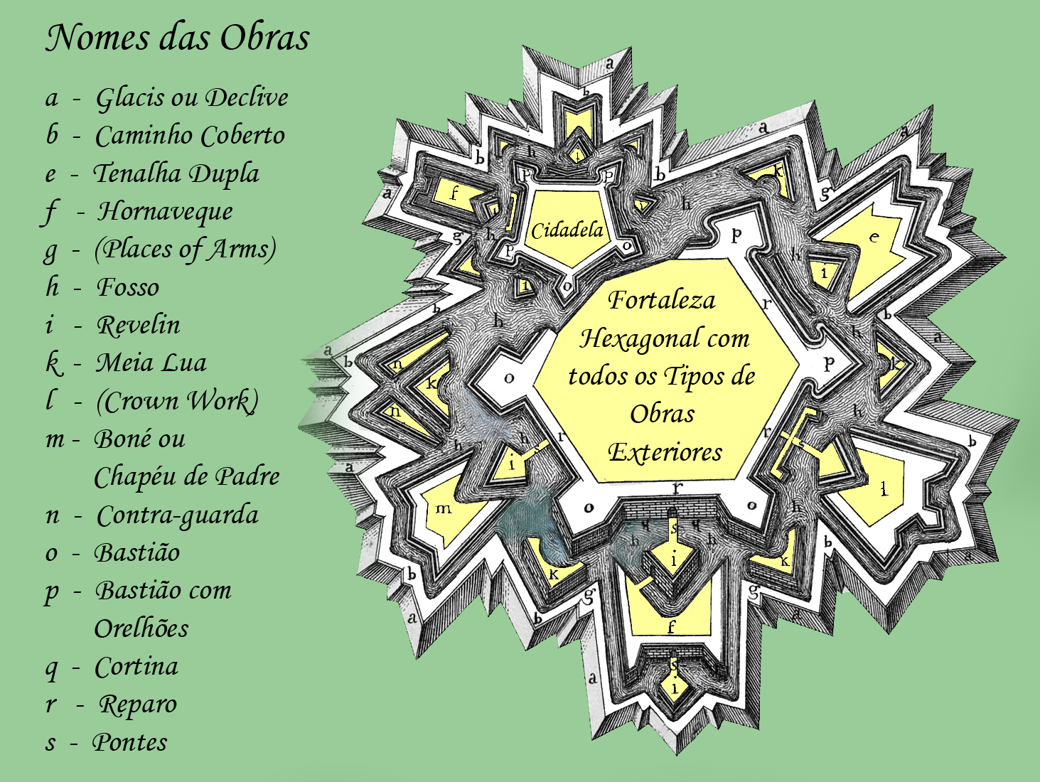 Table of Fortification, from the 1728 Cyclopaedia, Volume 1. [1], with portuguese description